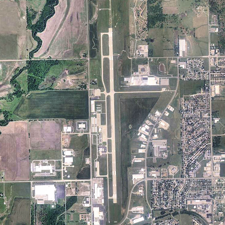 USGS digital orthophoto of Ponca City Regional Airport in Oklahoma